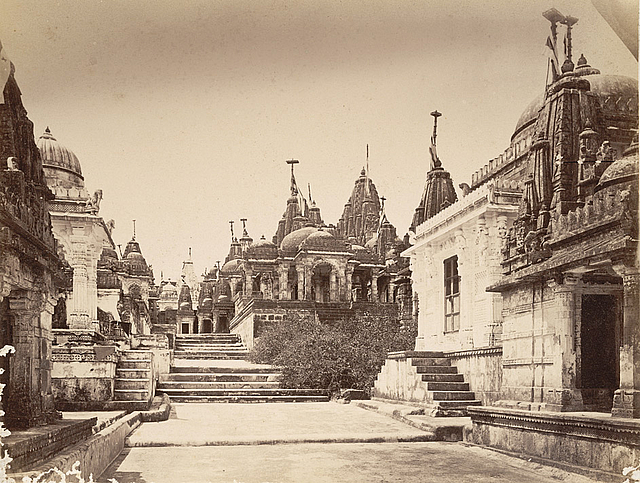 Palitana Temples on Mount Shetrunjaya of Gujarat, India photographed by unknown in 1860s. From British Library Open Gallery.